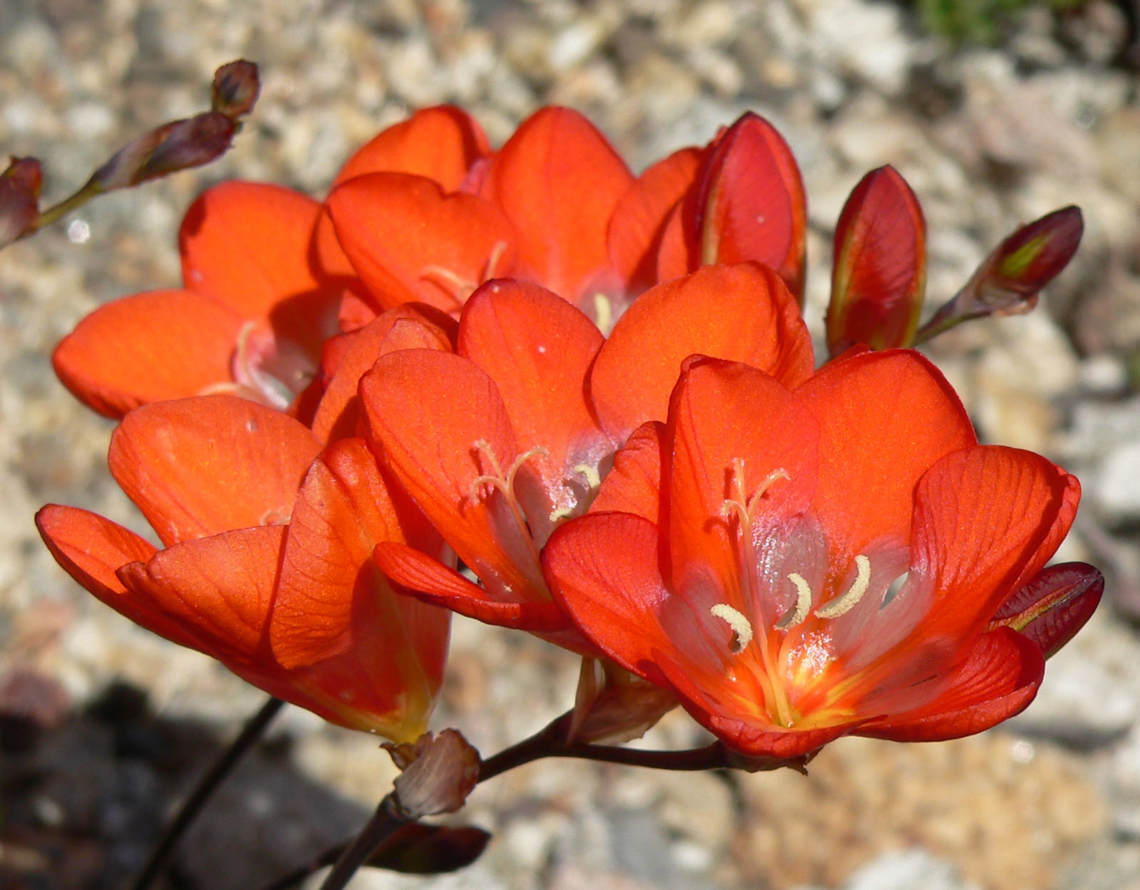 Tritonia crocata (labelled T. hyalina) at the University of California Botanical Garden, Berkeley, California